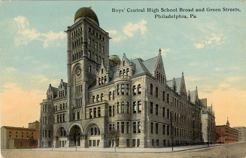 A postcard of the Boys Central High School in Philadelphia (1904)